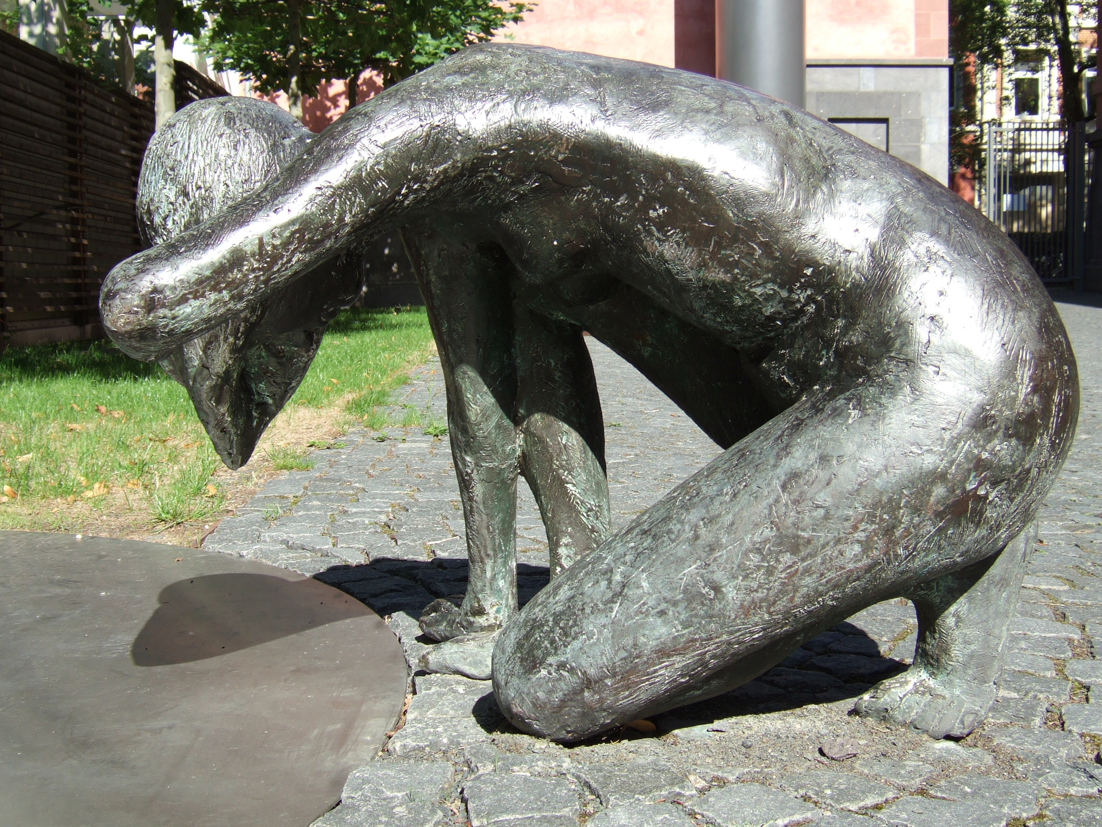 Sculpture by Ernemann Sander: Die Badende in front of Rheinisches Landesmuseum Bonn